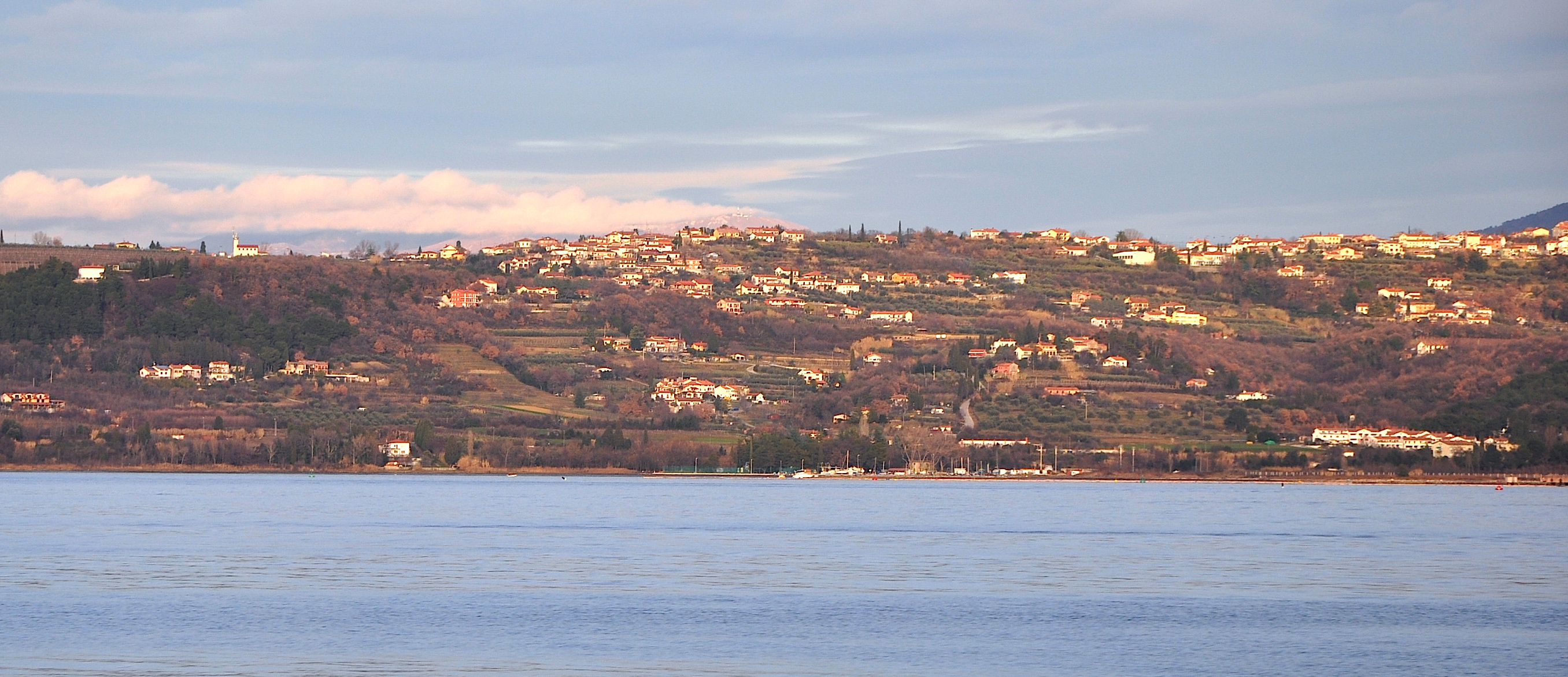 Hrvatini, village in Slovenia